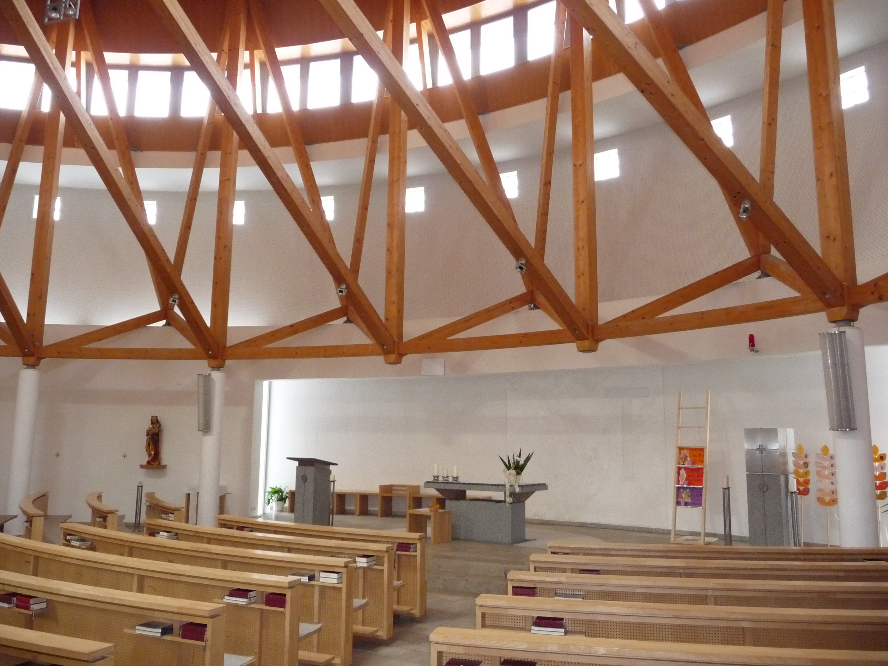 Interior of the church in Schlüsslberg, Grieskirchen parish.